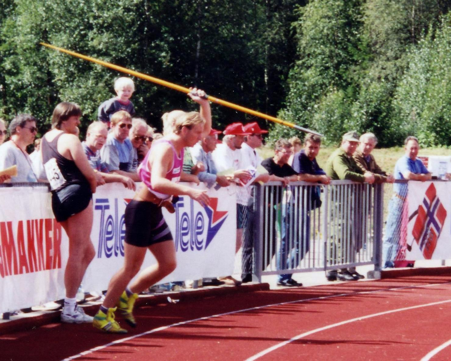 Arne Indrebø winning at the Norwegian Champs at Jessheim 1993. Competitor, Narve Hoff is leaning towards fence.